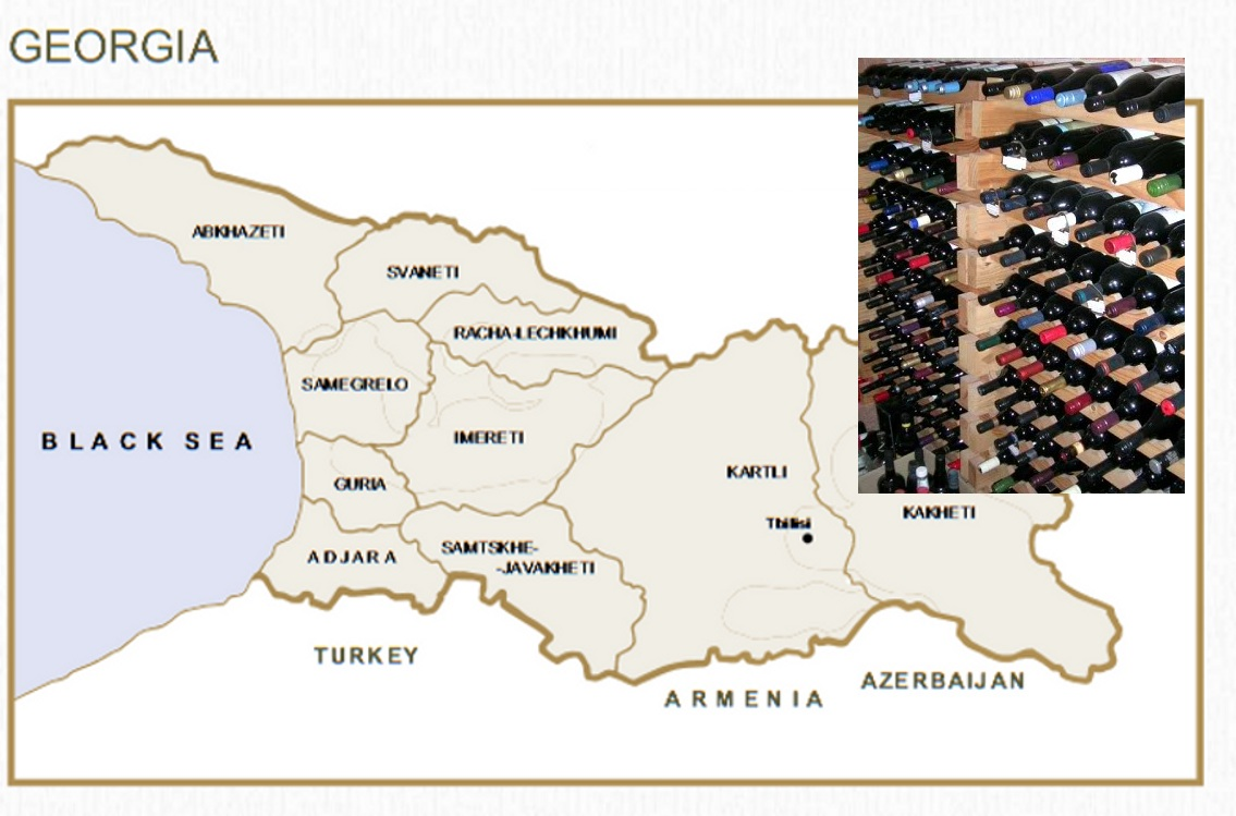 It is a map of Georgia indicating the regions where the Georgian wines originate